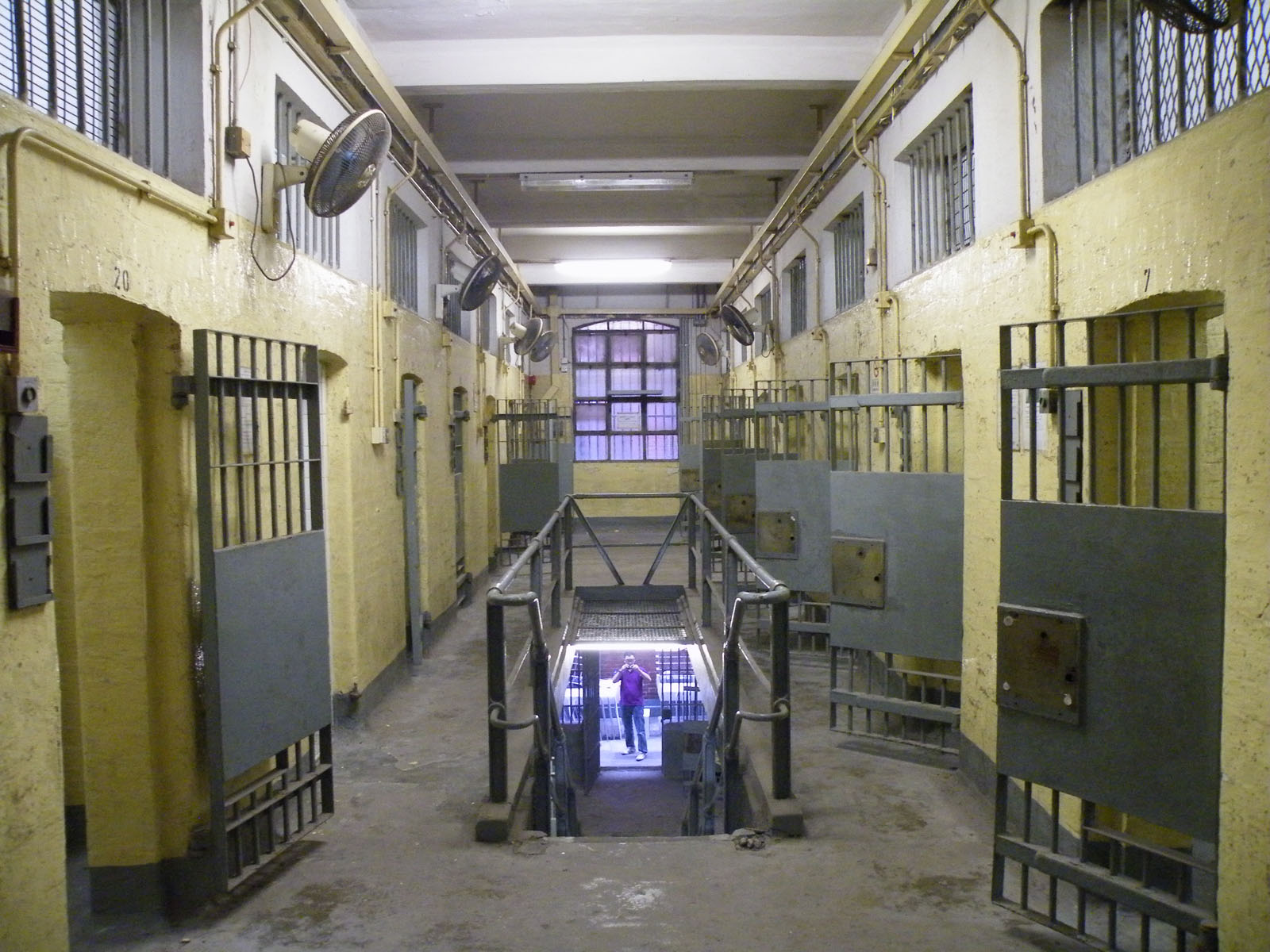 Victoria Prison hall B interior